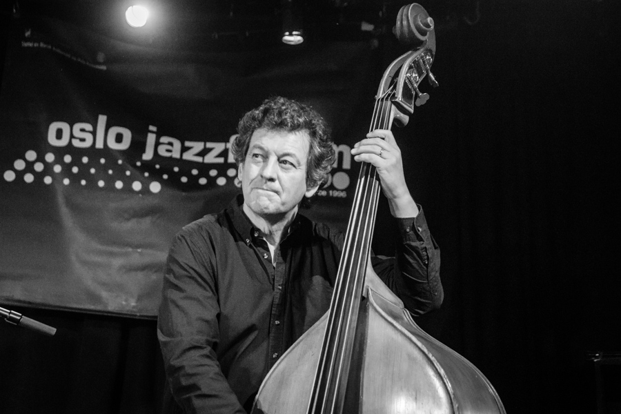 Olaf Kamfjord in a concert with Ole Henrik Giørtz at Herr Nilsen. The concert took place on 11. January 2020 in Oslo. Lineup:Ole Henrik Giørtz (vocal)Tore Brunborg (saxophone)Olaf Kamfjord (double bass)Rune Arnesen (drums)